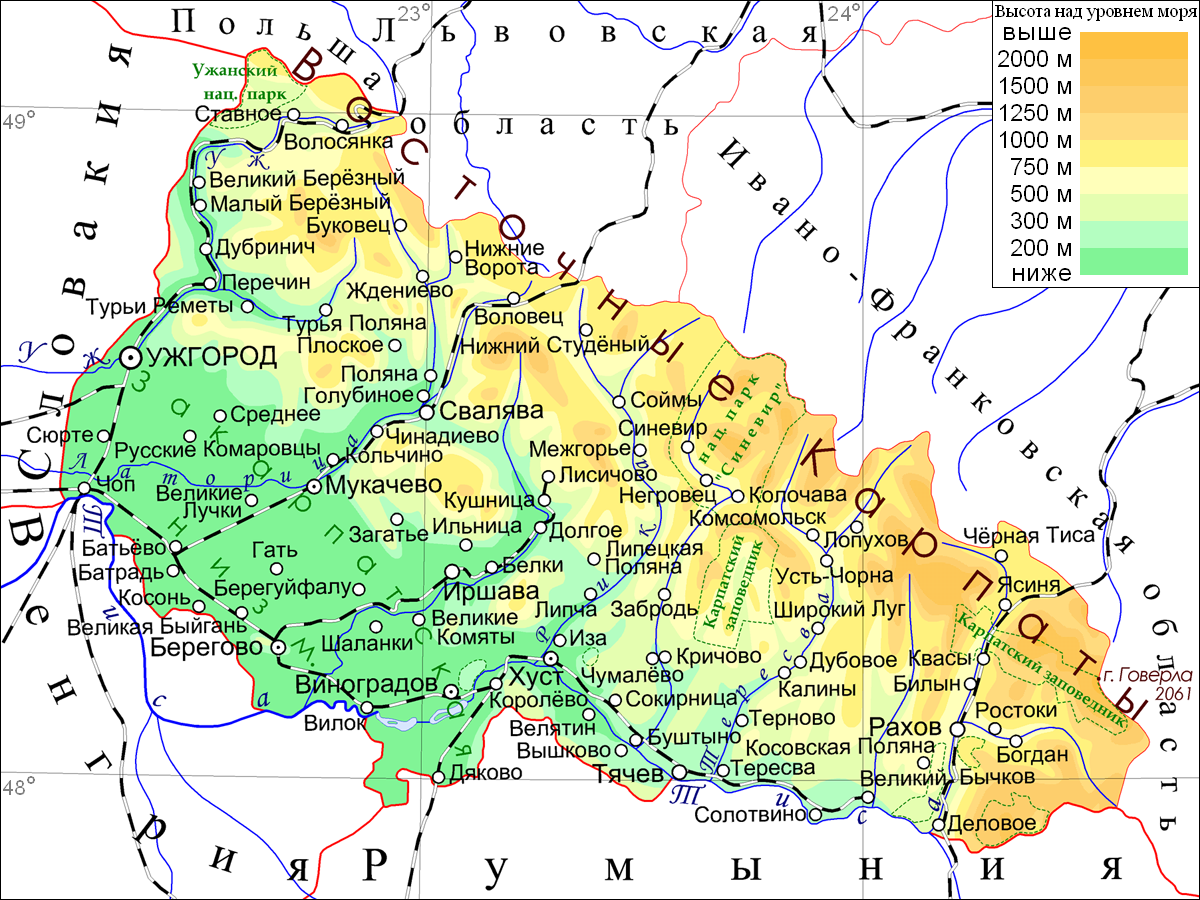 Topographic map of Zakarpattia Oblast, Ukraine, in Russian.